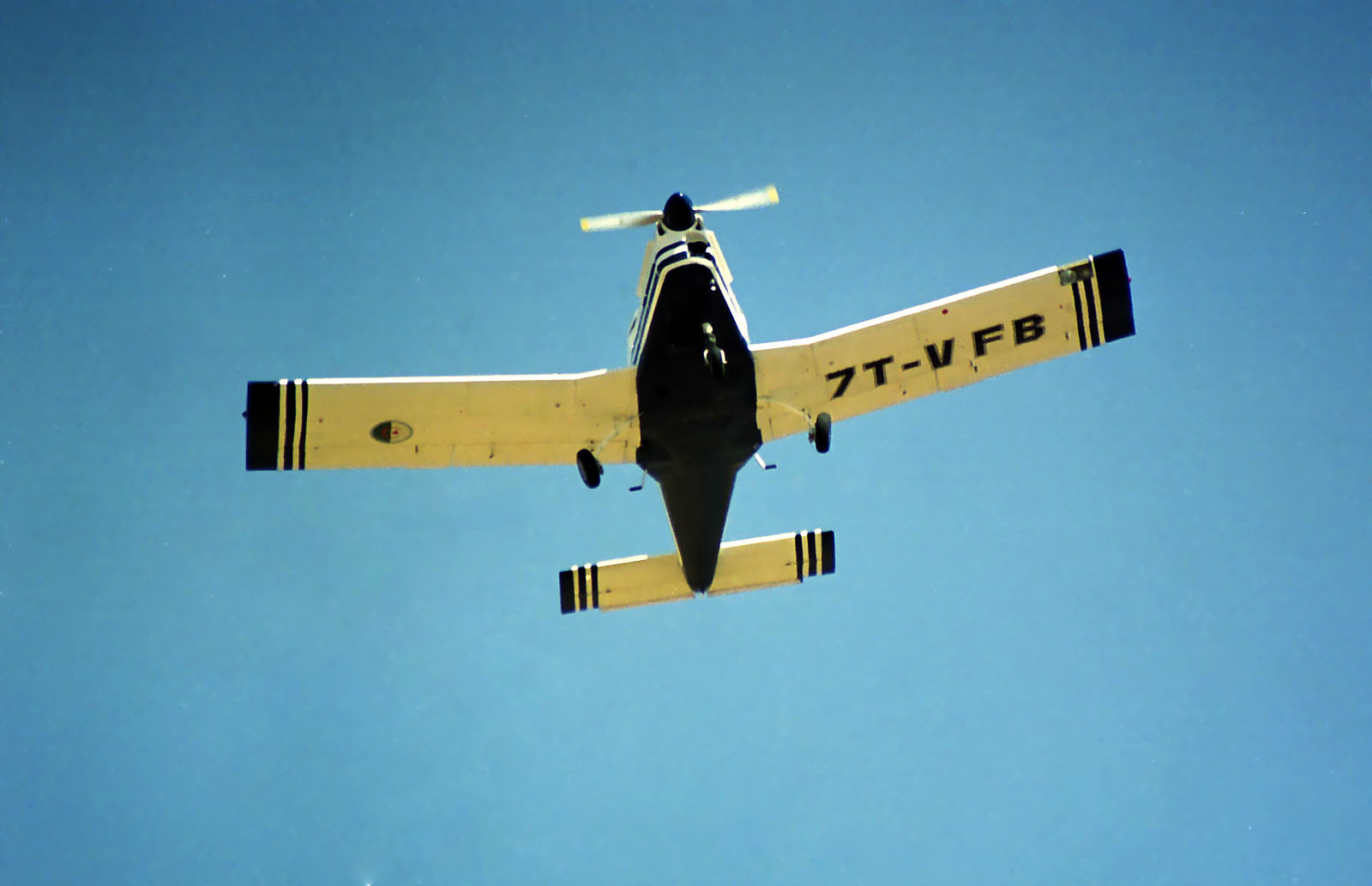 Algerian Air Force Safir 142 7T-VFB